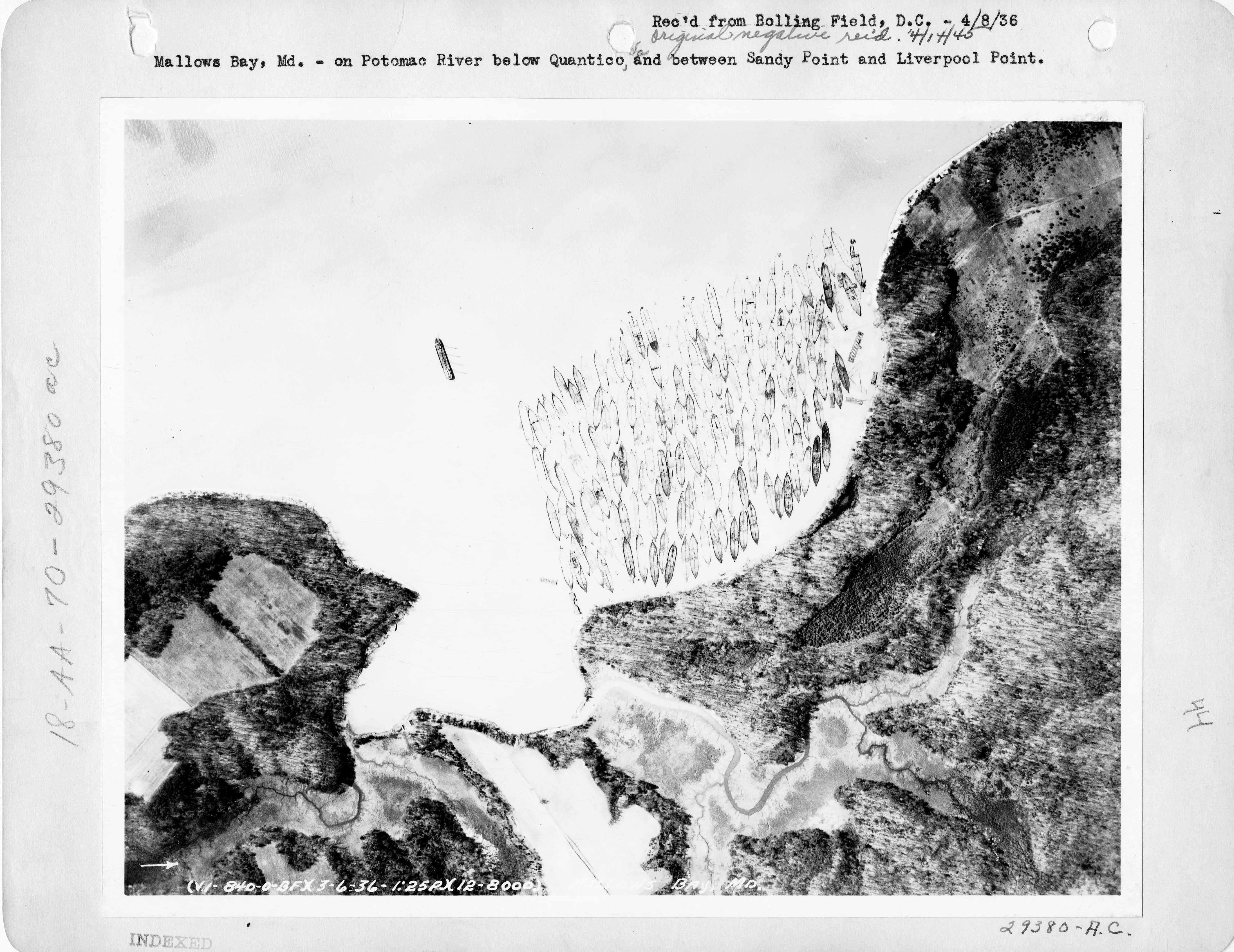 Mallows Bay, Md. - On Potomac River below Quantico and between Sandy Point and Liverpool Point.